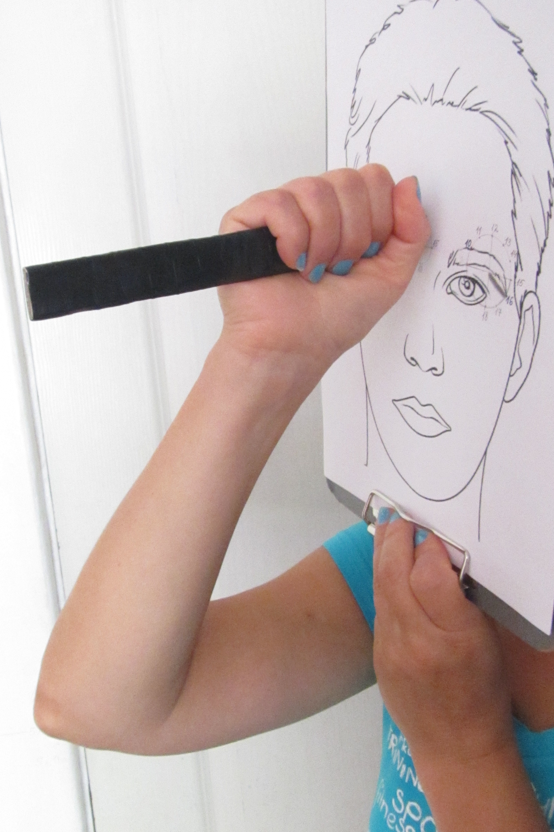 Вертикальная, на 1 см выше переносицы, длина 1 см